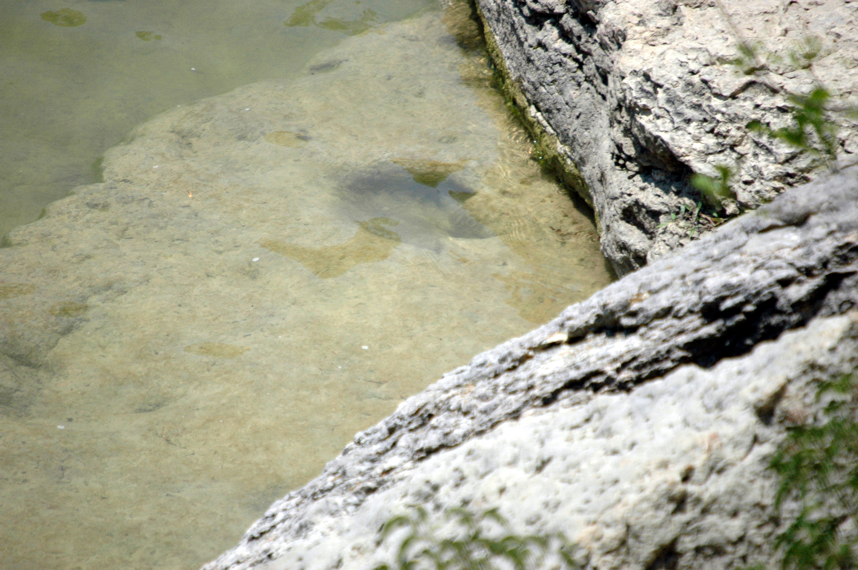 Dinosaur track just under the water in Dinosaur Valley State Park, Texas